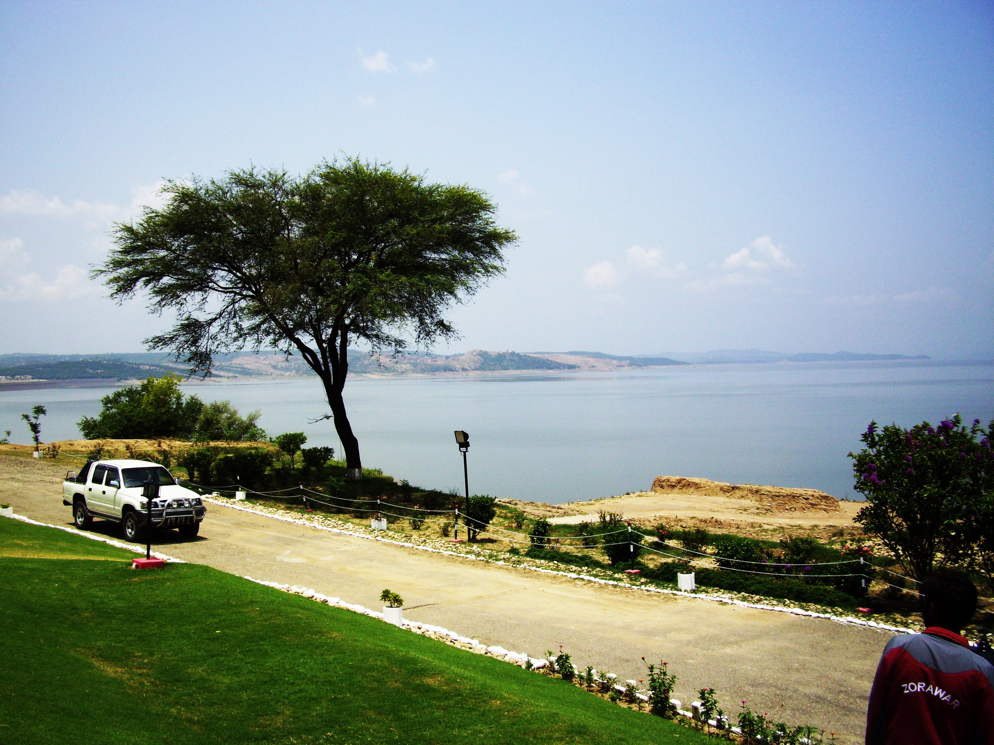 Mangla Dam